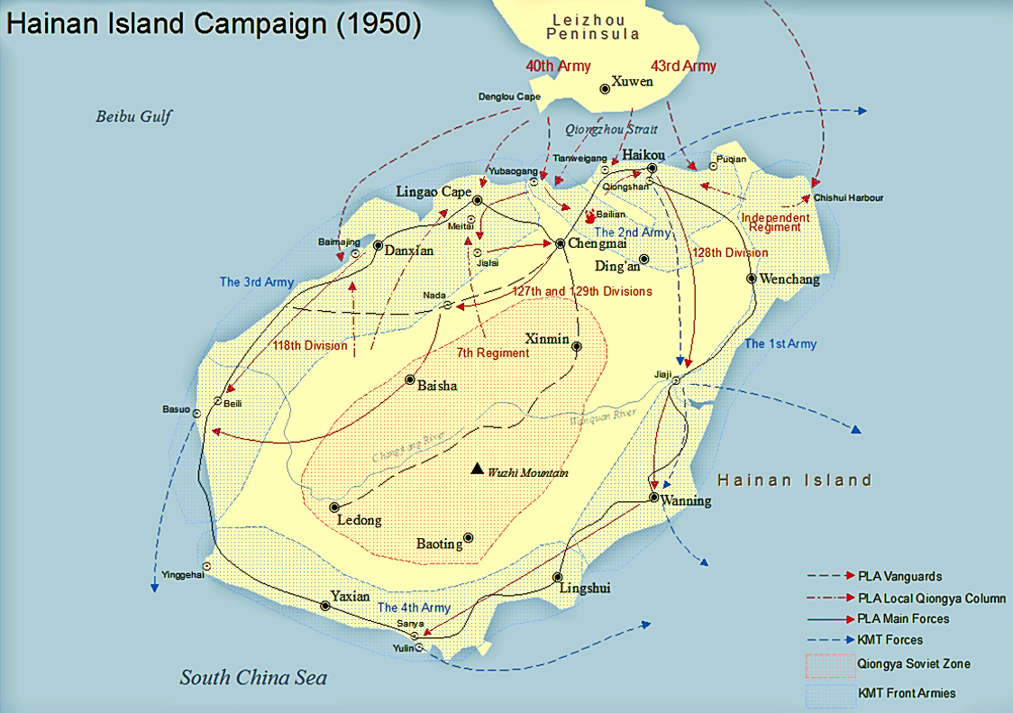 Hainan Island Campaign in 1950, as a part of the Chinese Civil War